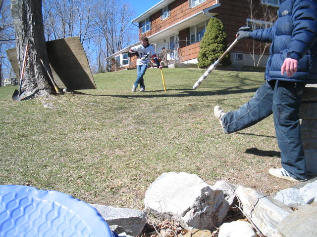 Wiffle golf